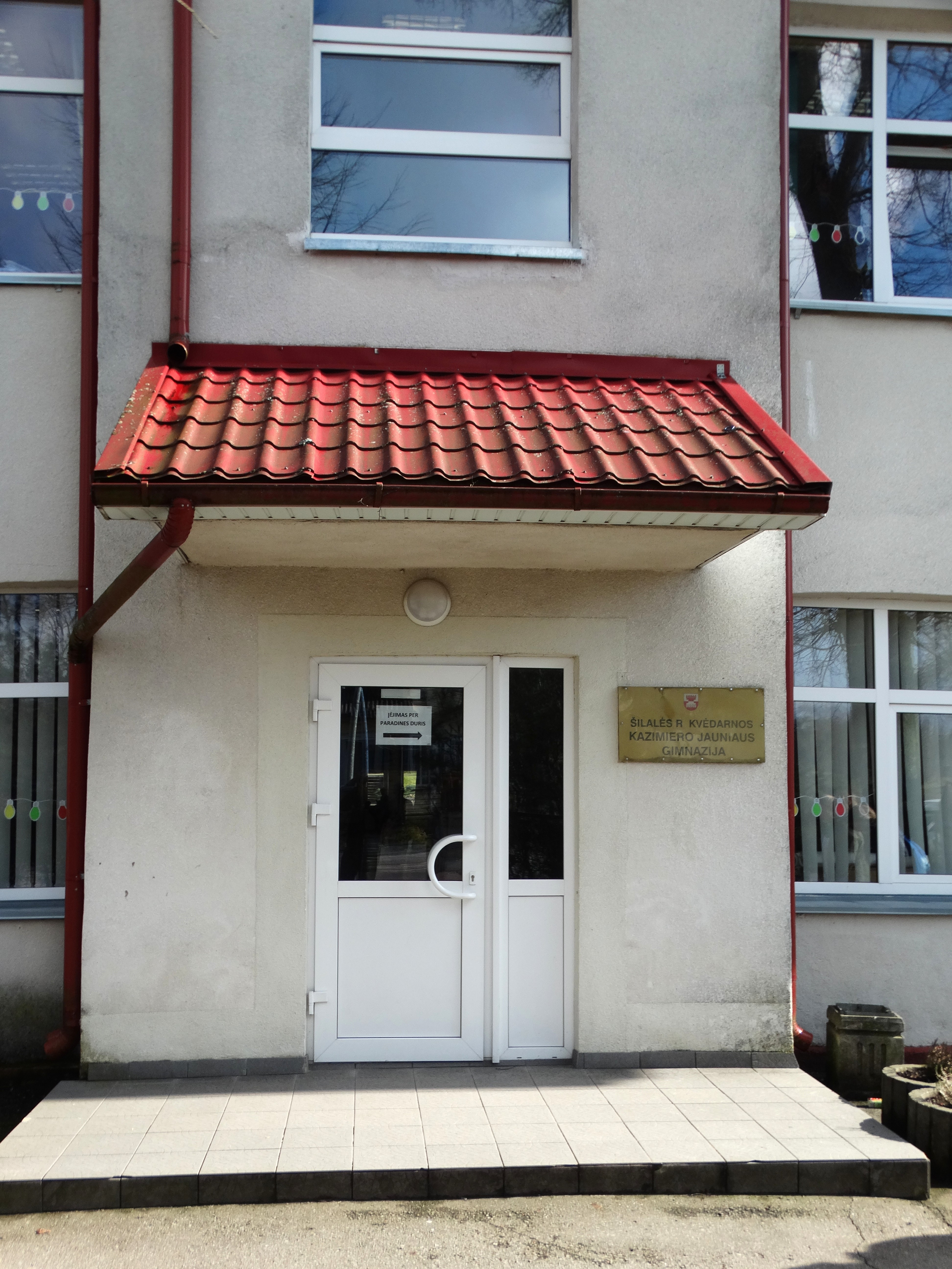 Gymnasium, Kvėdarna, Šilalė District, Lithuania